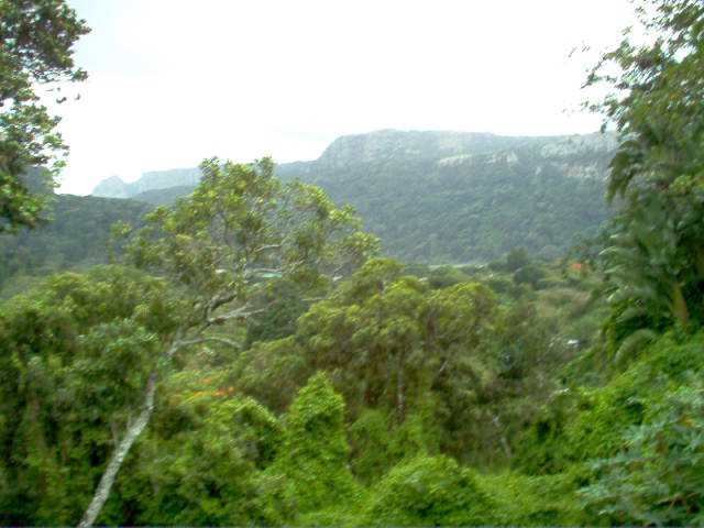 A shot of the lush vegetation